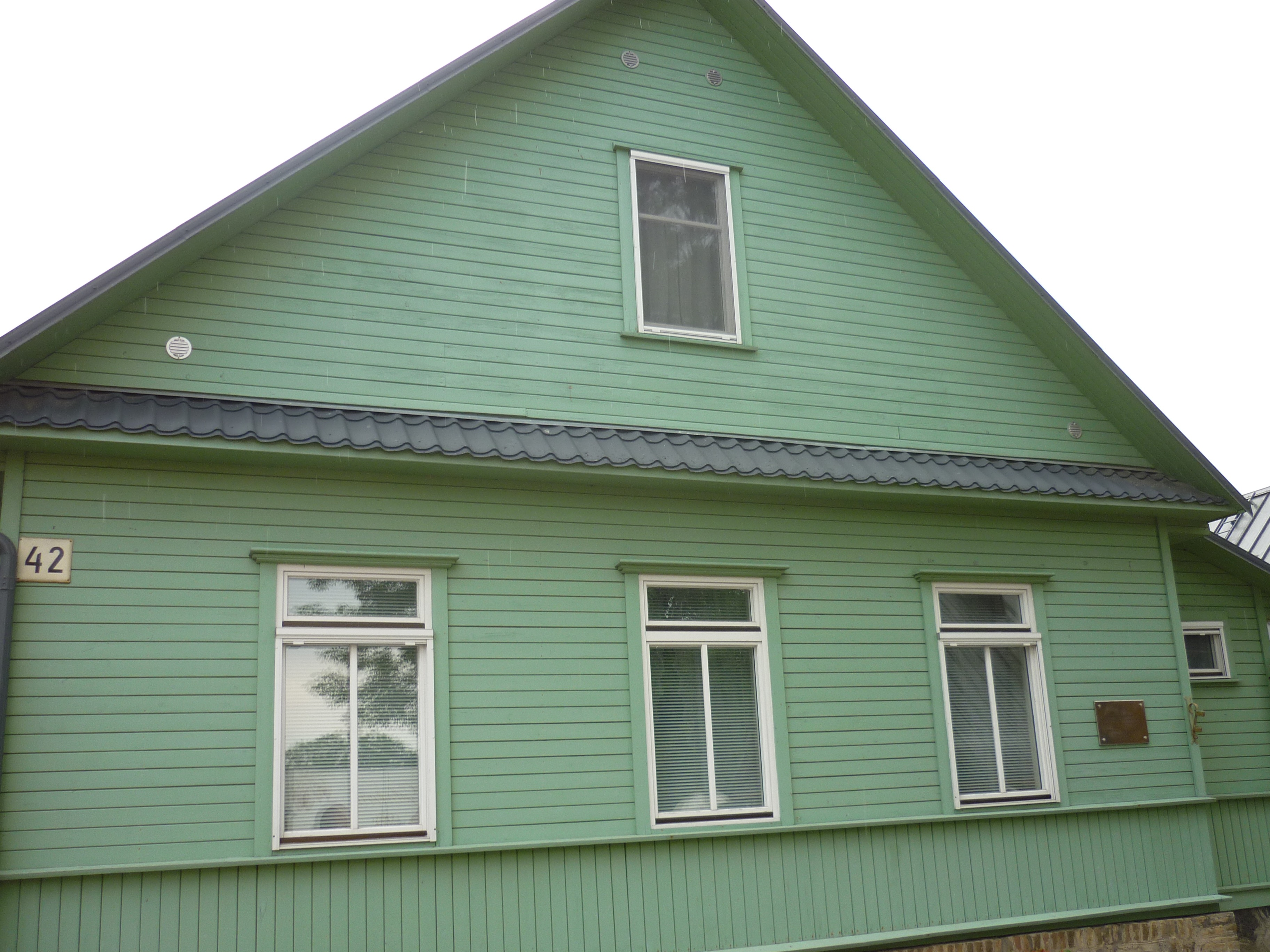 The houses of the Karaim in Lithuania are said to always have three windows on the ground floor, one for God, one for the Duke, and one for the owner of the house. This happens to be house number 42 along the main street in Trakai. The houses are painted green, red, or ochre, the colors of the Lithuanian flag.